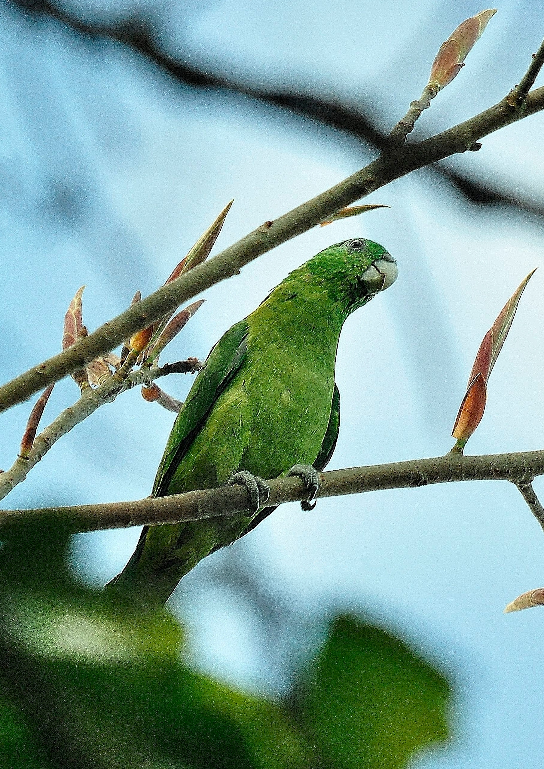 Taken in Coron, Palawan, another place where this species trive in flocks